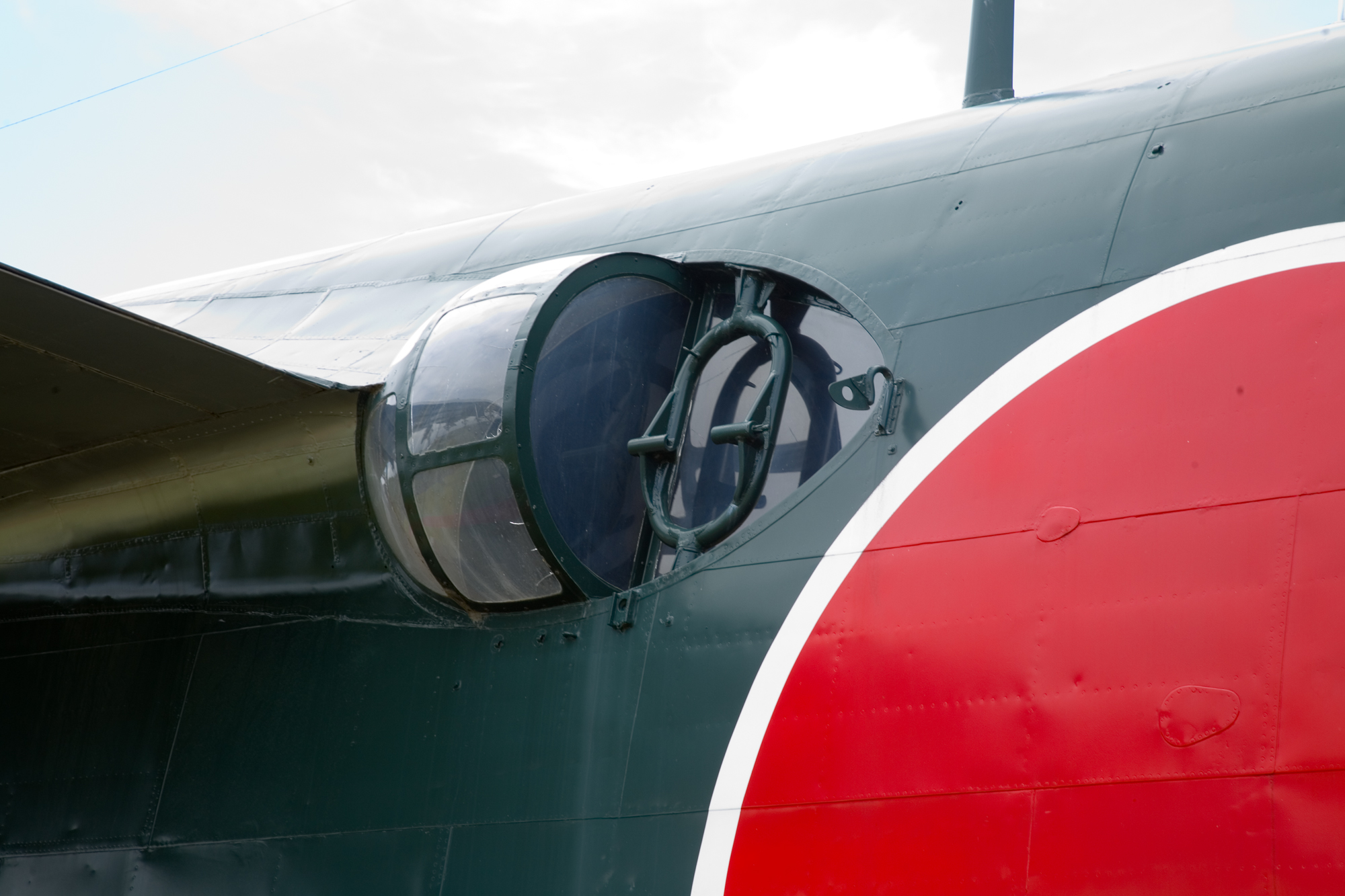 Detail of the side gunner position of a Kawanishi H8K2 Type 2 flying boat at Kanoya Museum in Japan. It was codenamed Emily by allied force. This example is manufacture 426.